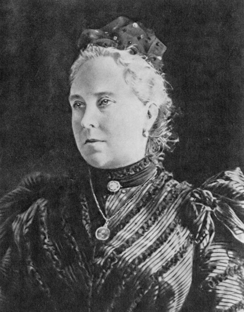 Victoria, Princess Royal (1840–1901)